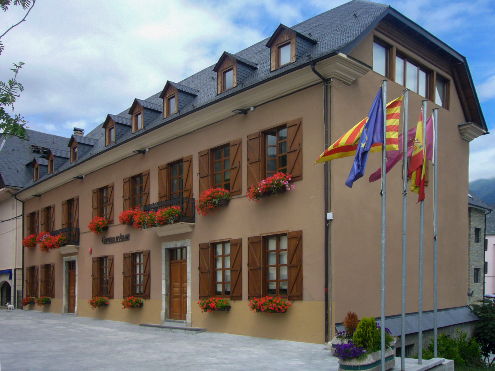 Conselh Generau d'Aran (Catalonia, Spain).